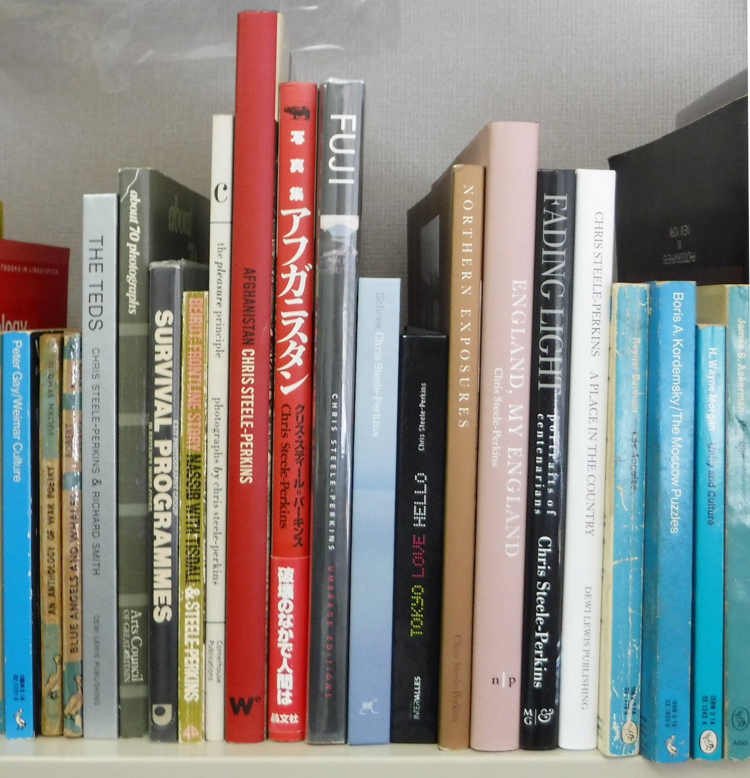 Books by Chris Steele-Perkins, whether alone or in collaboration (flanked by irrelevant Pelicans).